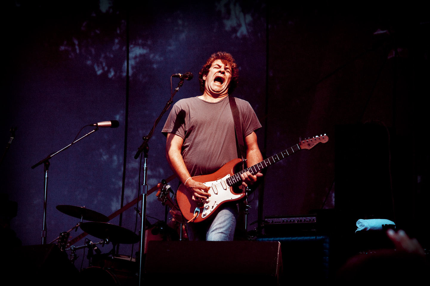 Dean Ween performing at Outside Lands Music Festival, August 2009